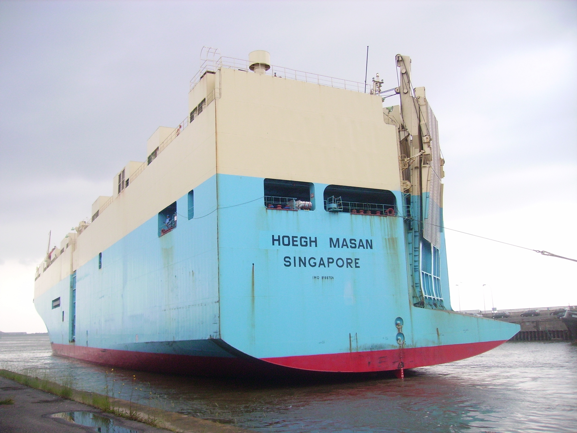 Rear view of the car carrier Hoegh Masan leaving the port of Bremerhaven, Germany